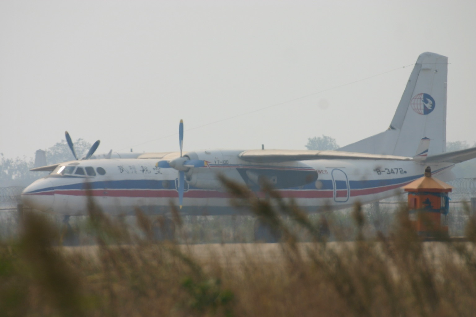 At Wuhan